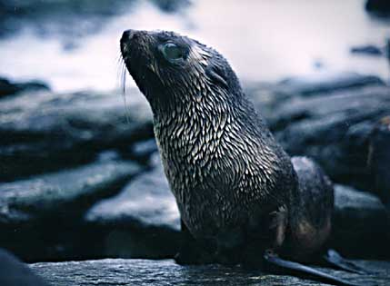 Antarctic Fur Seal larger image on